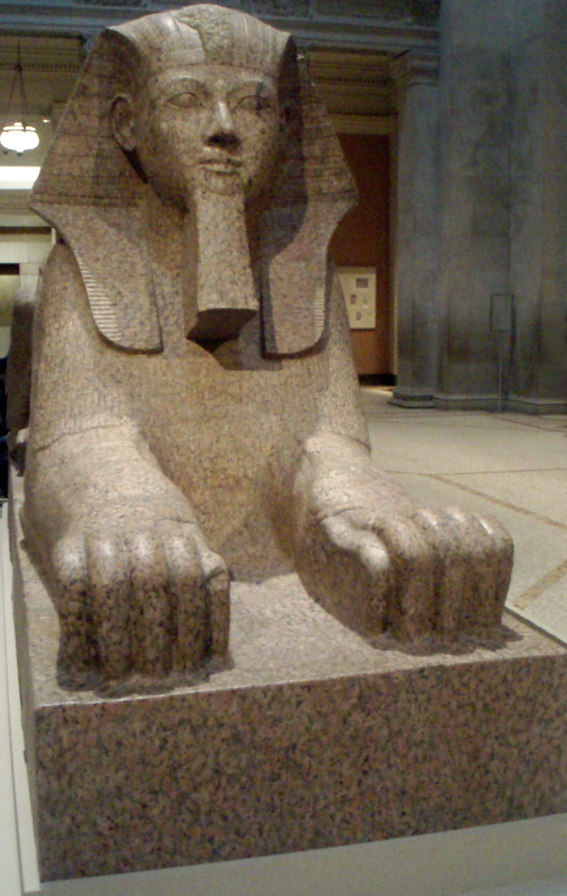 Large granite sphinx bearing the likeness of the female pharaoh Hatshepsut. Dating to the joint reign of Hatshepsut and Thutmose III, circa 1479-1458 B.C.